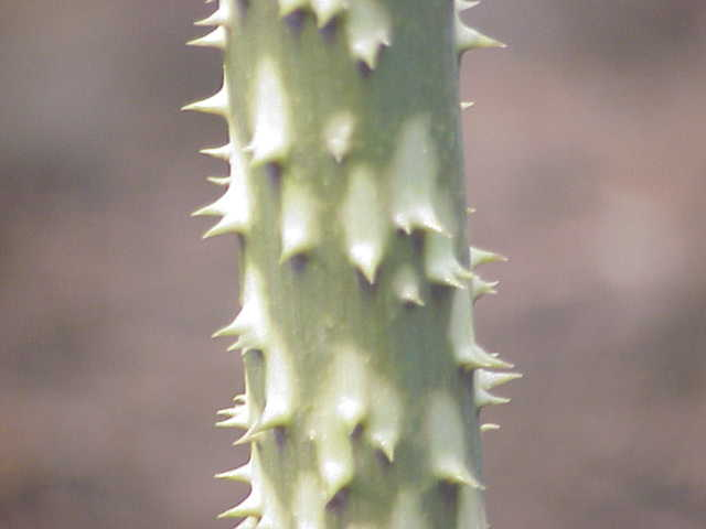 Species: Anchomanes giganteus Family: Araceae Image No. 6